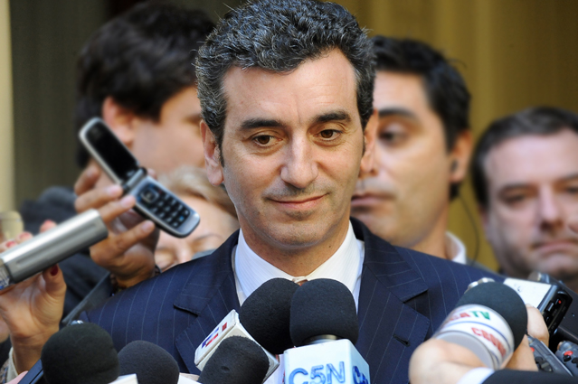 El ministro del Interior, Florencio Randazzo, responde consultas de los periodistas en Casa de Gobierno